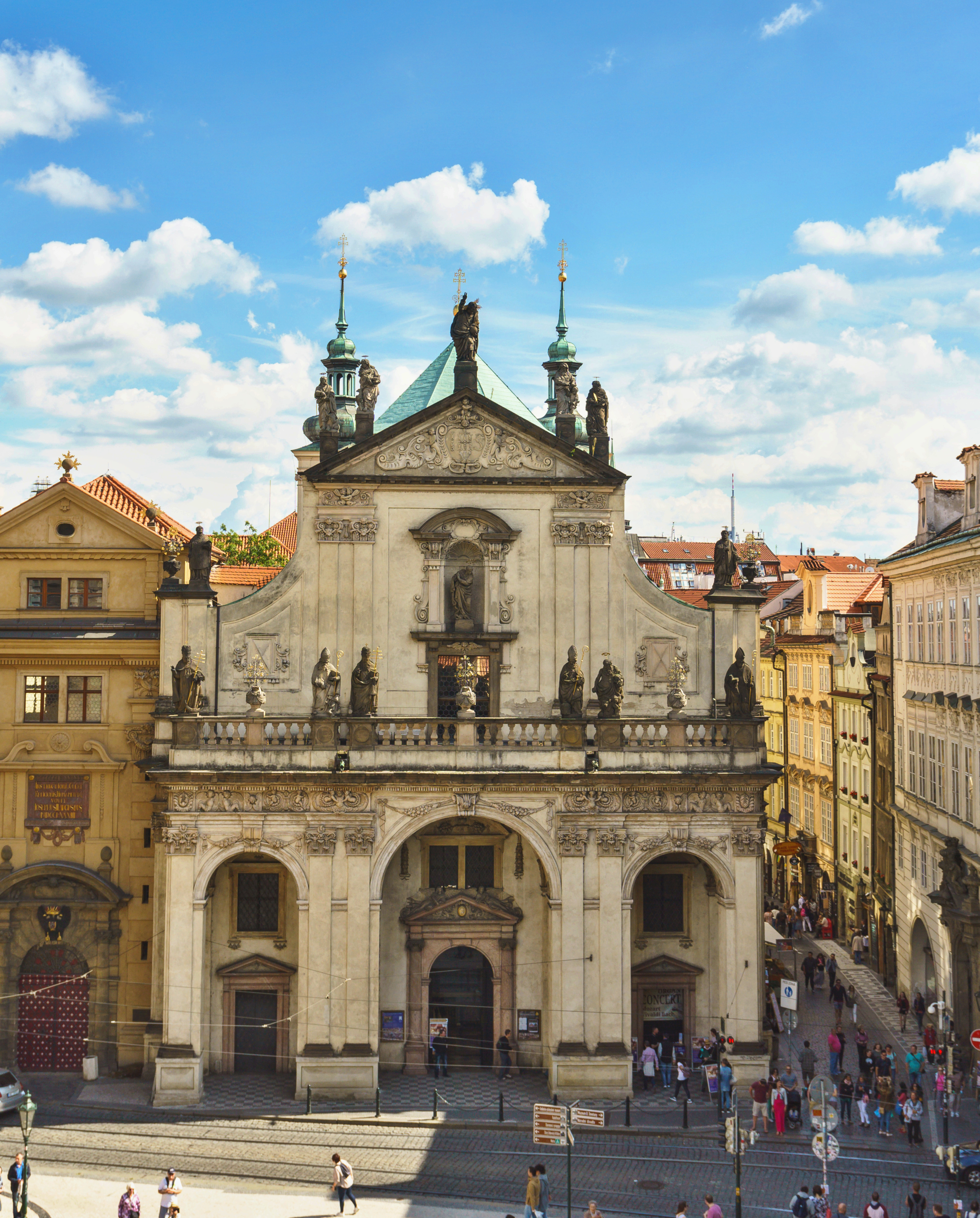 Kostel svatého Salvátora (Křižovnické náměstí)